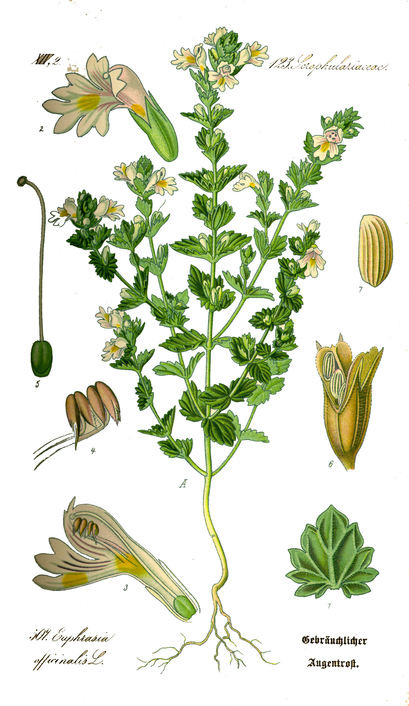 Euphrasia rostkoviana